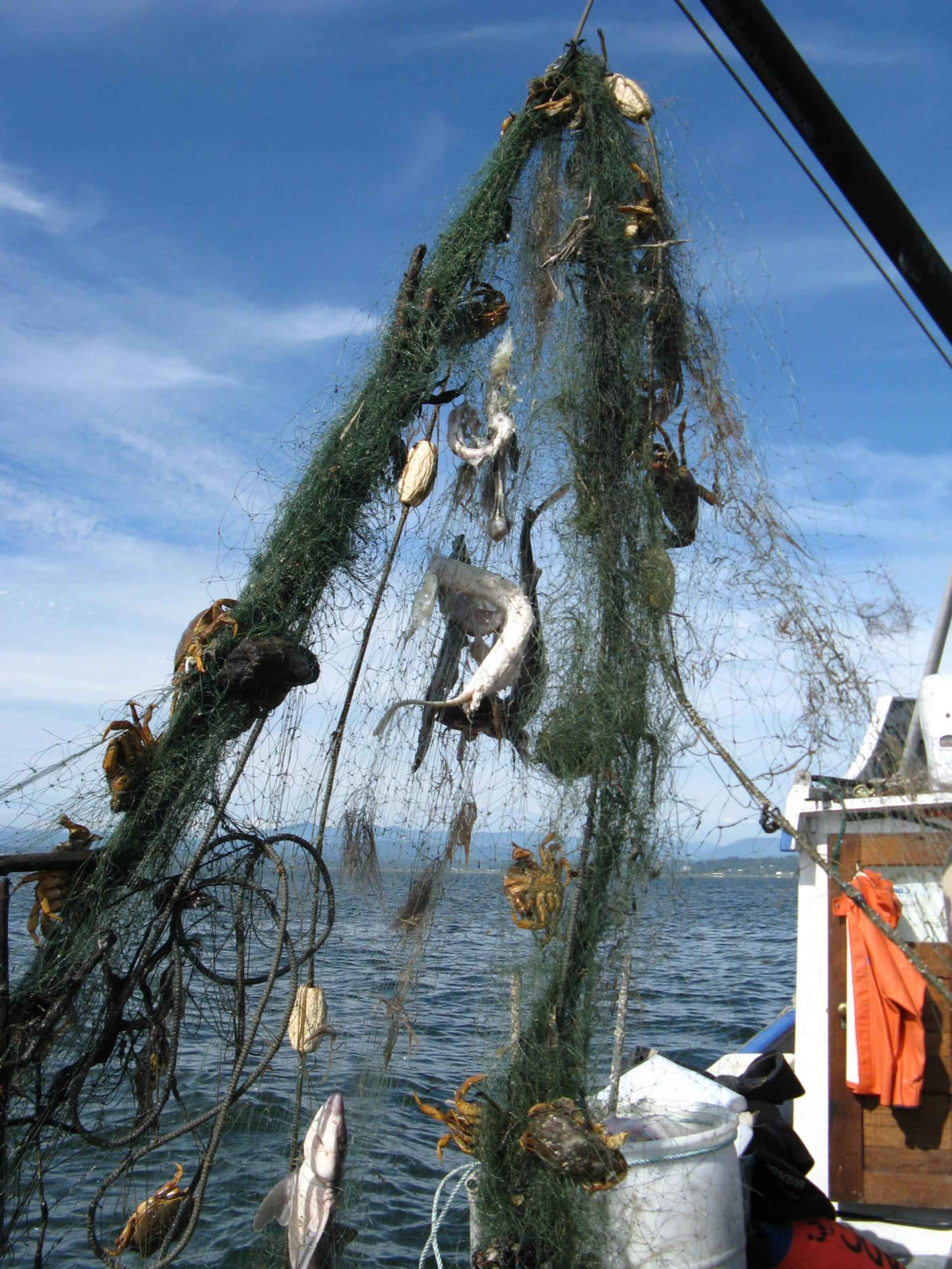 Image title: Derelict fishing gear with animal carcasses Image from Public domain images website